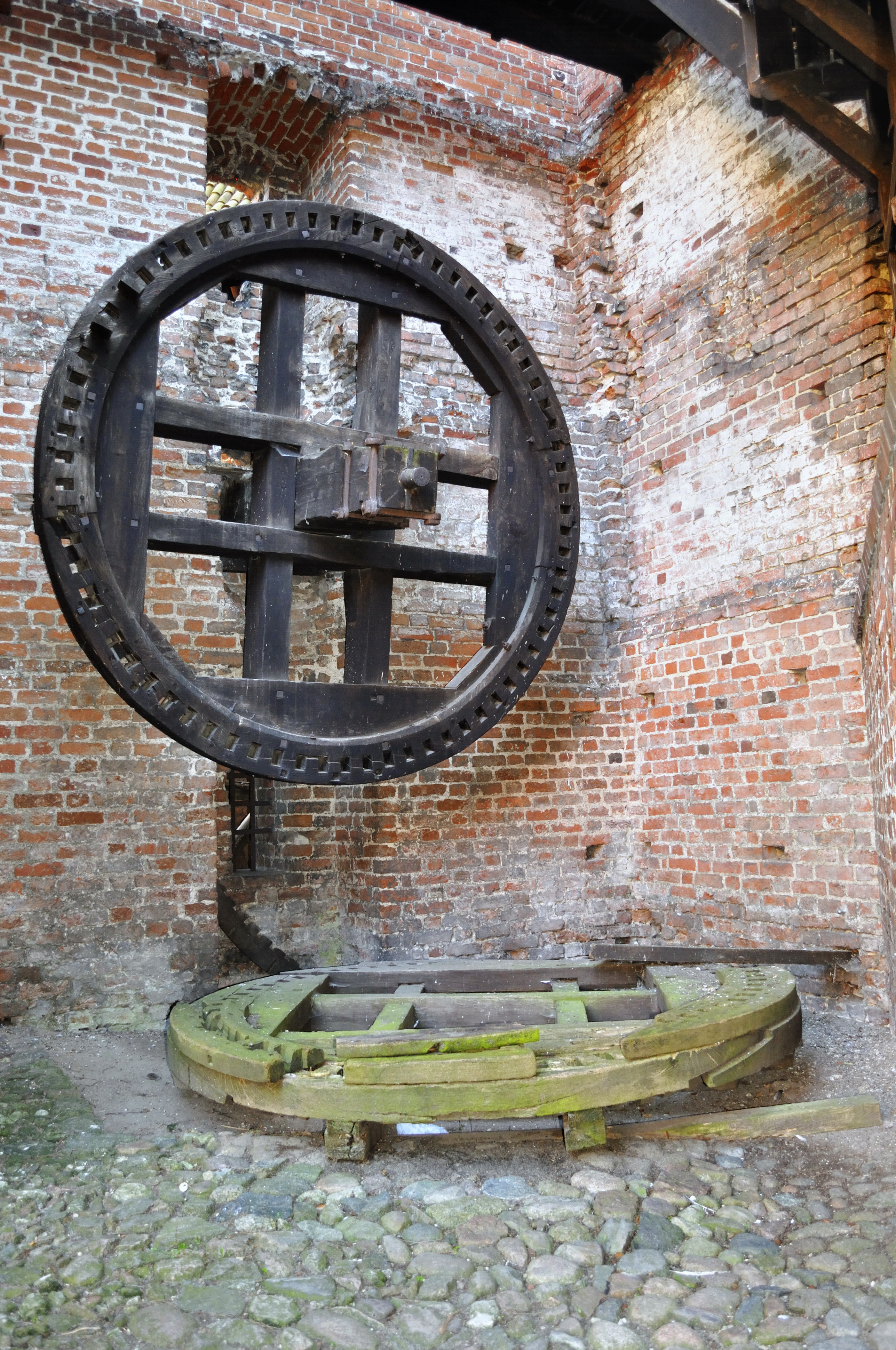 Picture taken in Malborg after Wikimania 2010 conference. Cogwheel, part of a pumping mill, 1831.